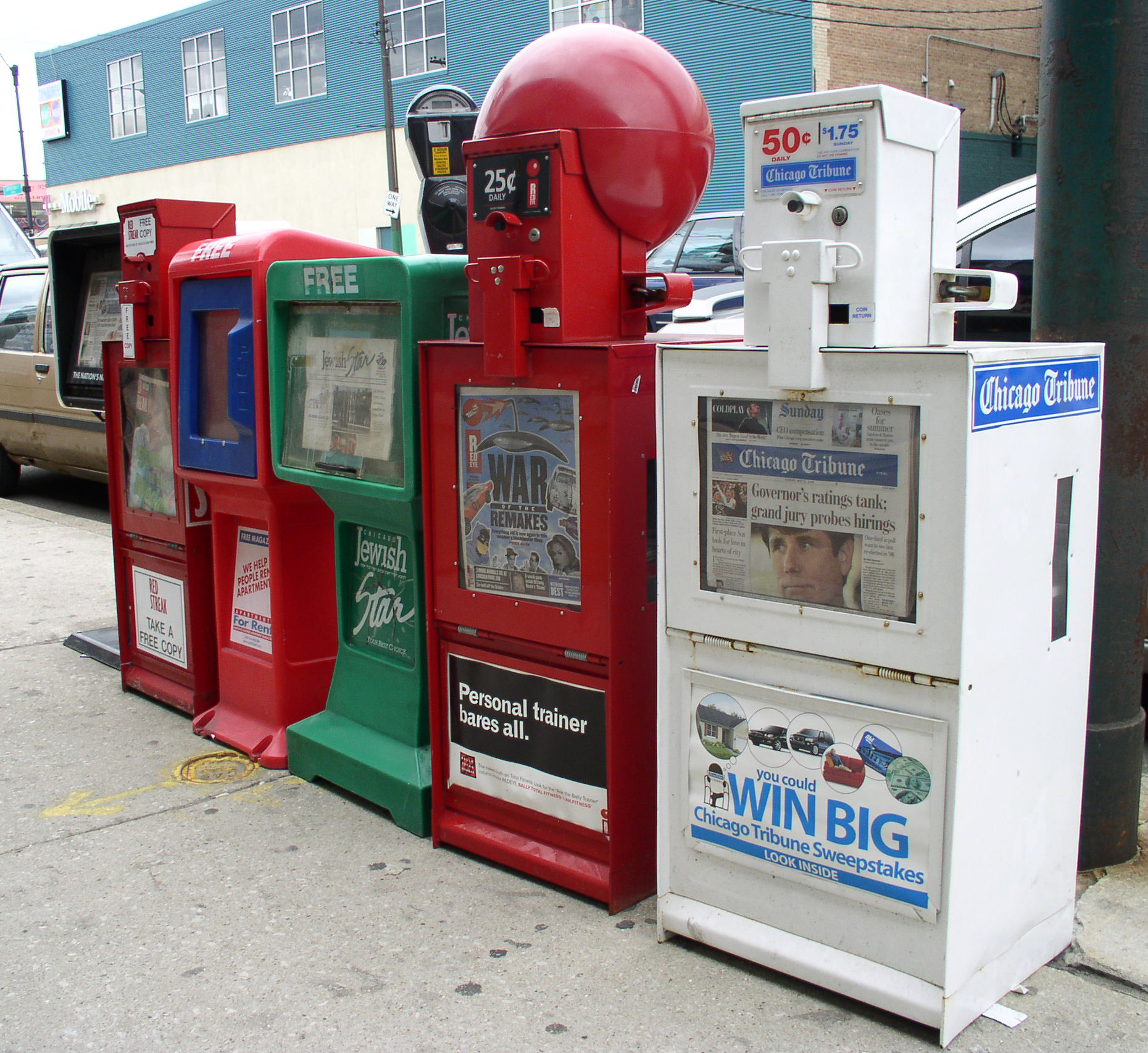 An unsecured Chicago Jewish Star newsbox in the South Loop, 2005.